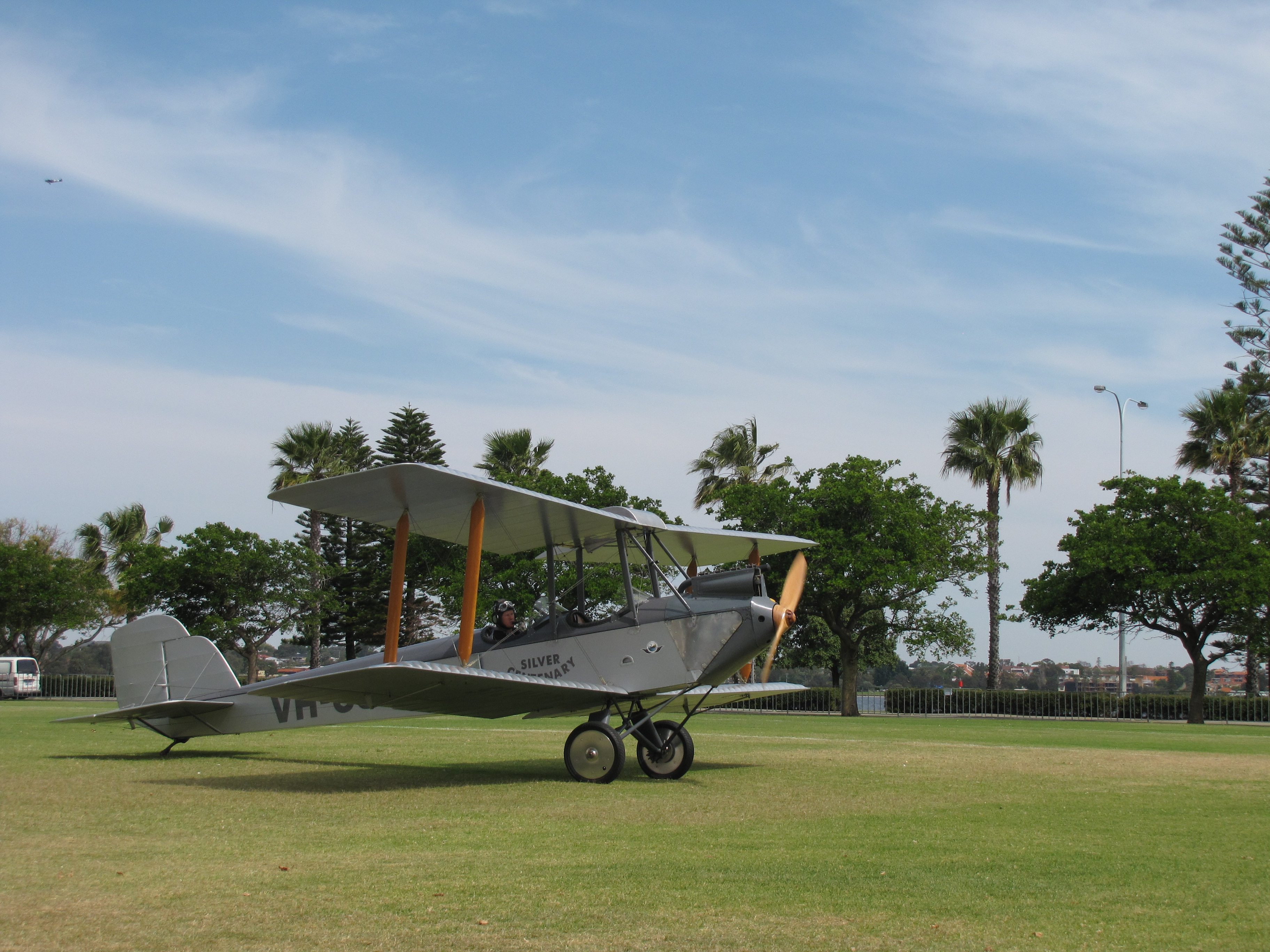 Silver Centenary at the SAAA Langley Park Fly-in October 2011.